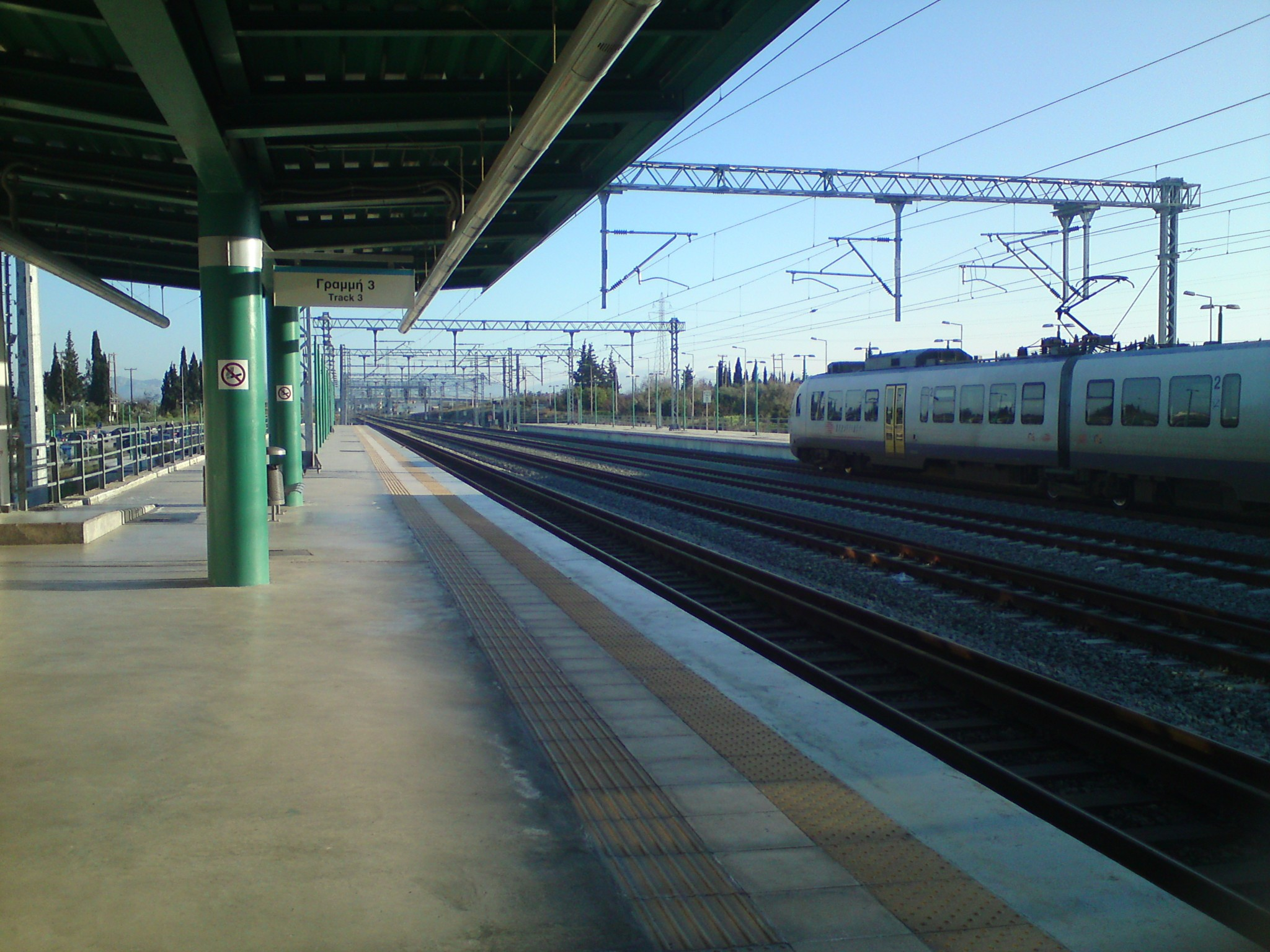 View of a Siemens Desiro (OSE class 660) train at Kiato railway station in Greece